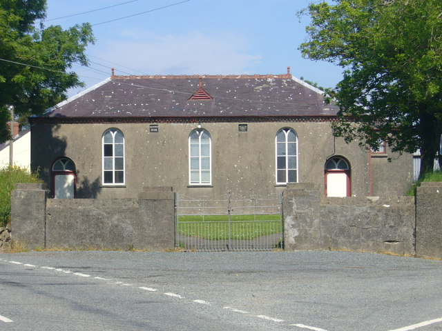 Woodstock Chapel Founded in 1754, rebuilt 1808, restored 1890. This is where the Calvinistic Methodists were first established in Pembrokeshire.